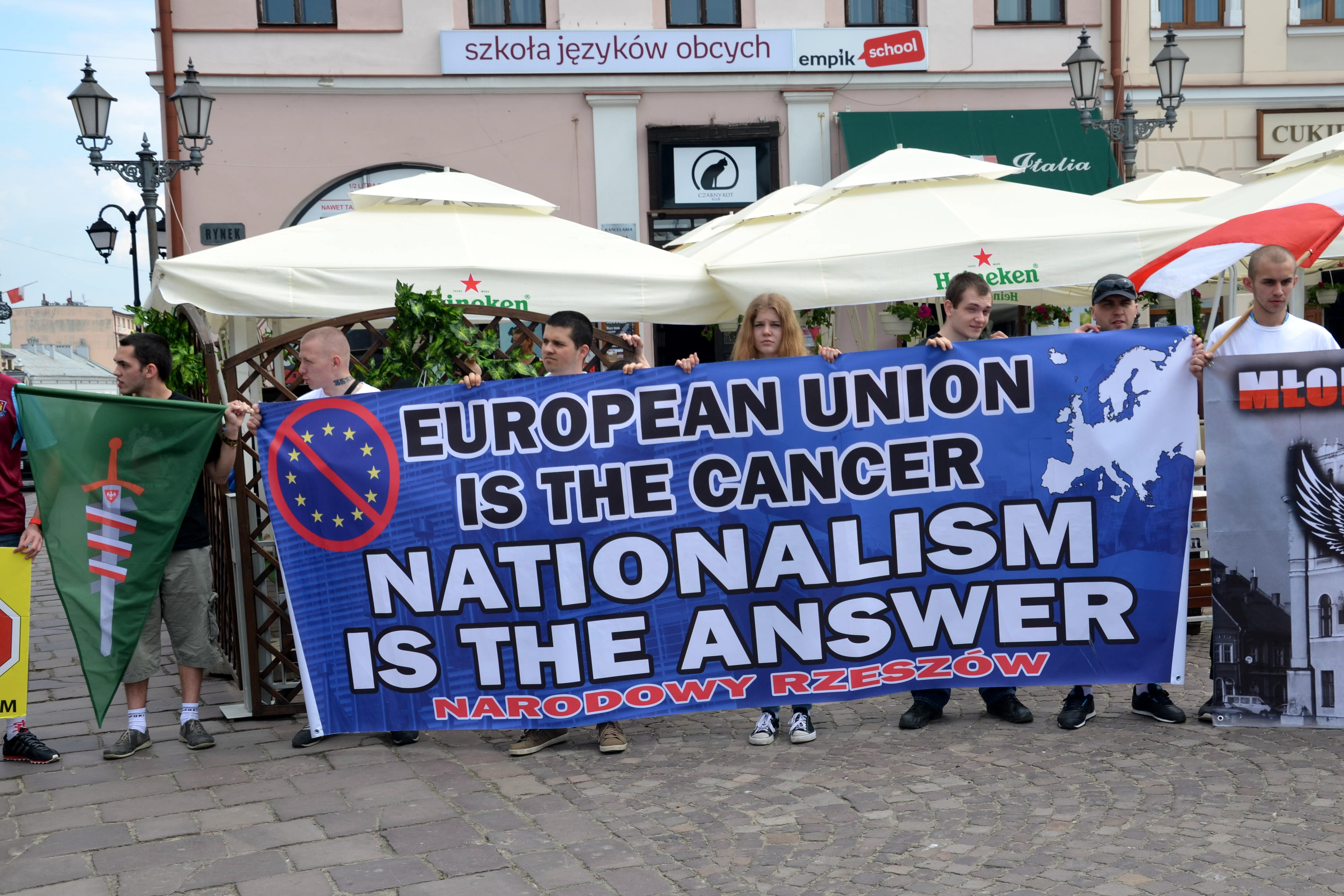 Erster Mai 2014 in Rzeszów.